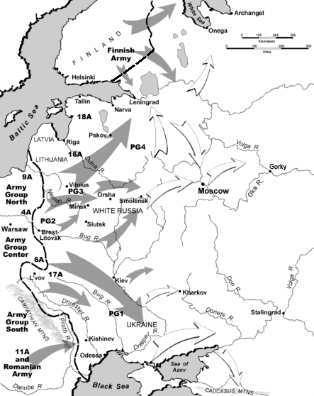 Corrected the Borders of Finland at the initiation of Operation Barbarossa. Created from the original that is also in public domain